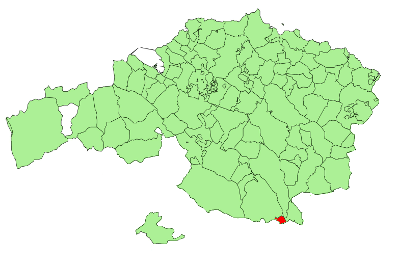 Ubide municipality in the province of Biscay